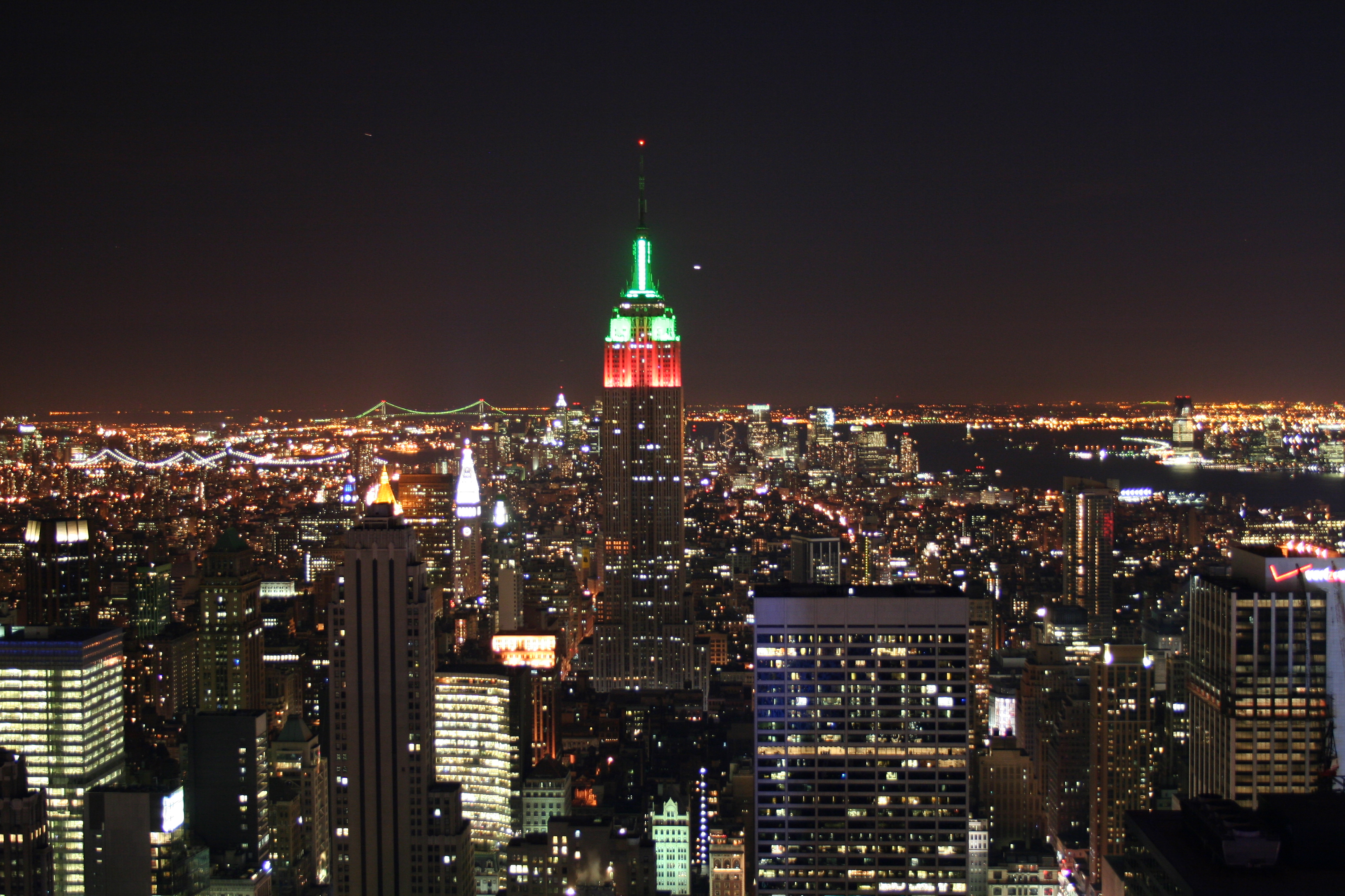 Empire State Building with red and green lights for Christmas, as seen from GE Building